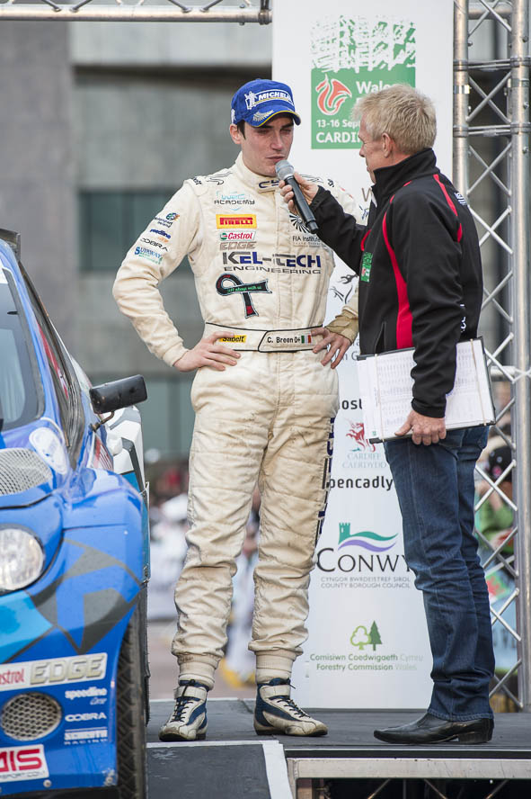 Wales Rally Great Britain 2012 Craig Breen,Ford Fiesta S2000,Motorsport,Podium,Rally,Rallye,Siegerehrung,WRC,Wales Rally GB